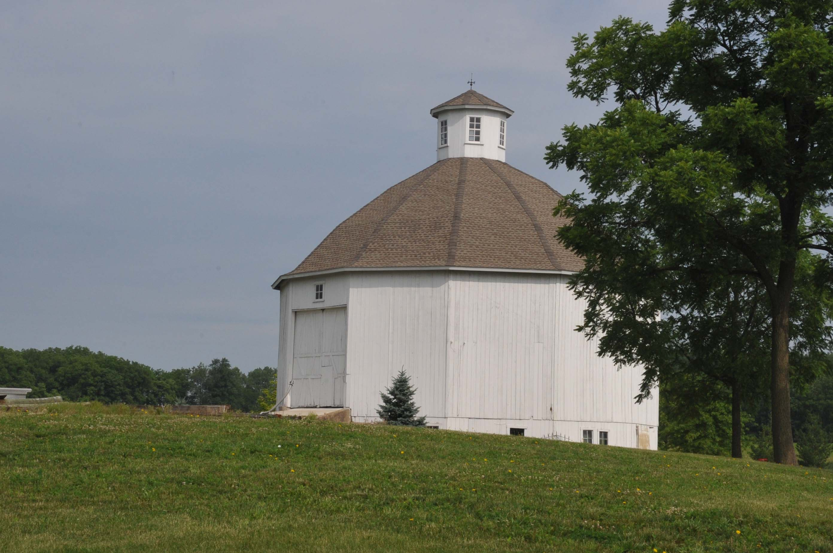 LOCATED ON A LARGE FARM COMPLEX JUST WEST OF ROUTE 13 IN KOSCIUSKO COUNTY, INDIANA